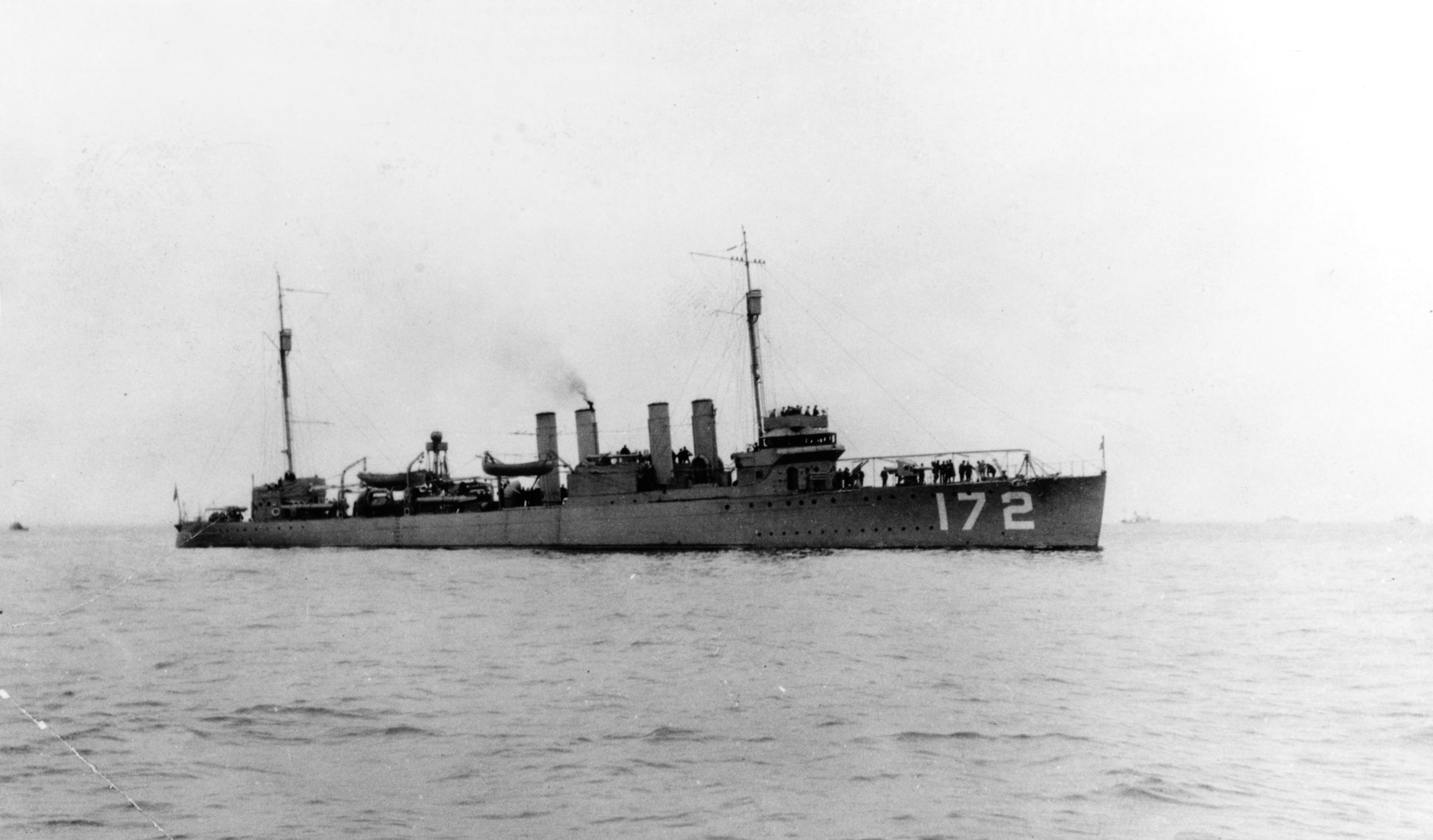 The U.S. Navy destroyer USS Anthony (DD-172), in Pacific Coast waters, circa in 1920.